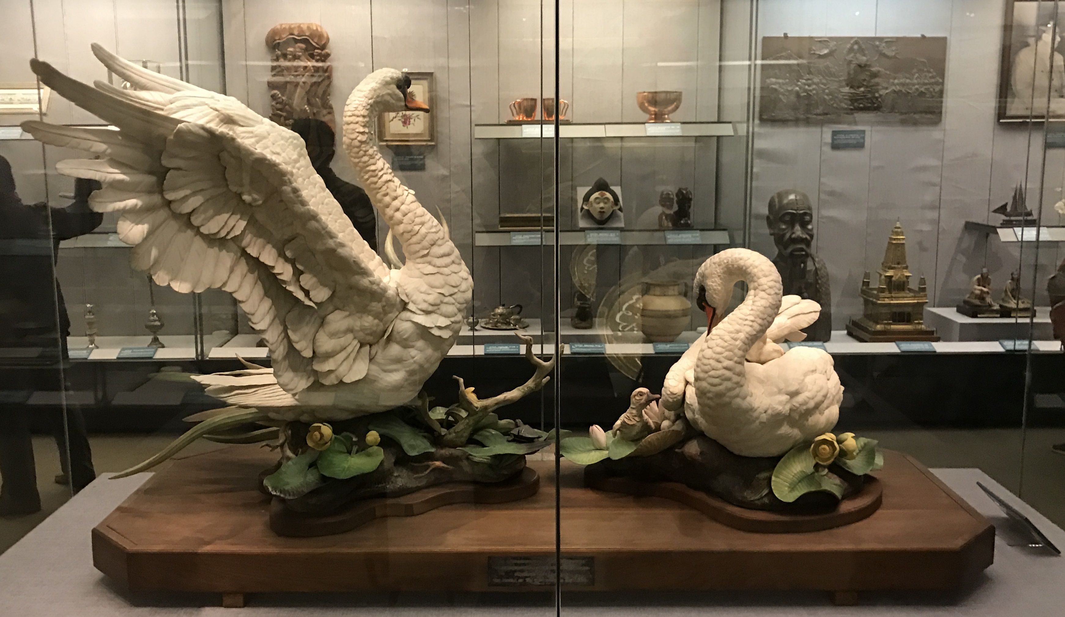 Photo of The Bird of Peace taken at the National Museum of China, State Gifts Exhibit. Cropped. Photography permitted.